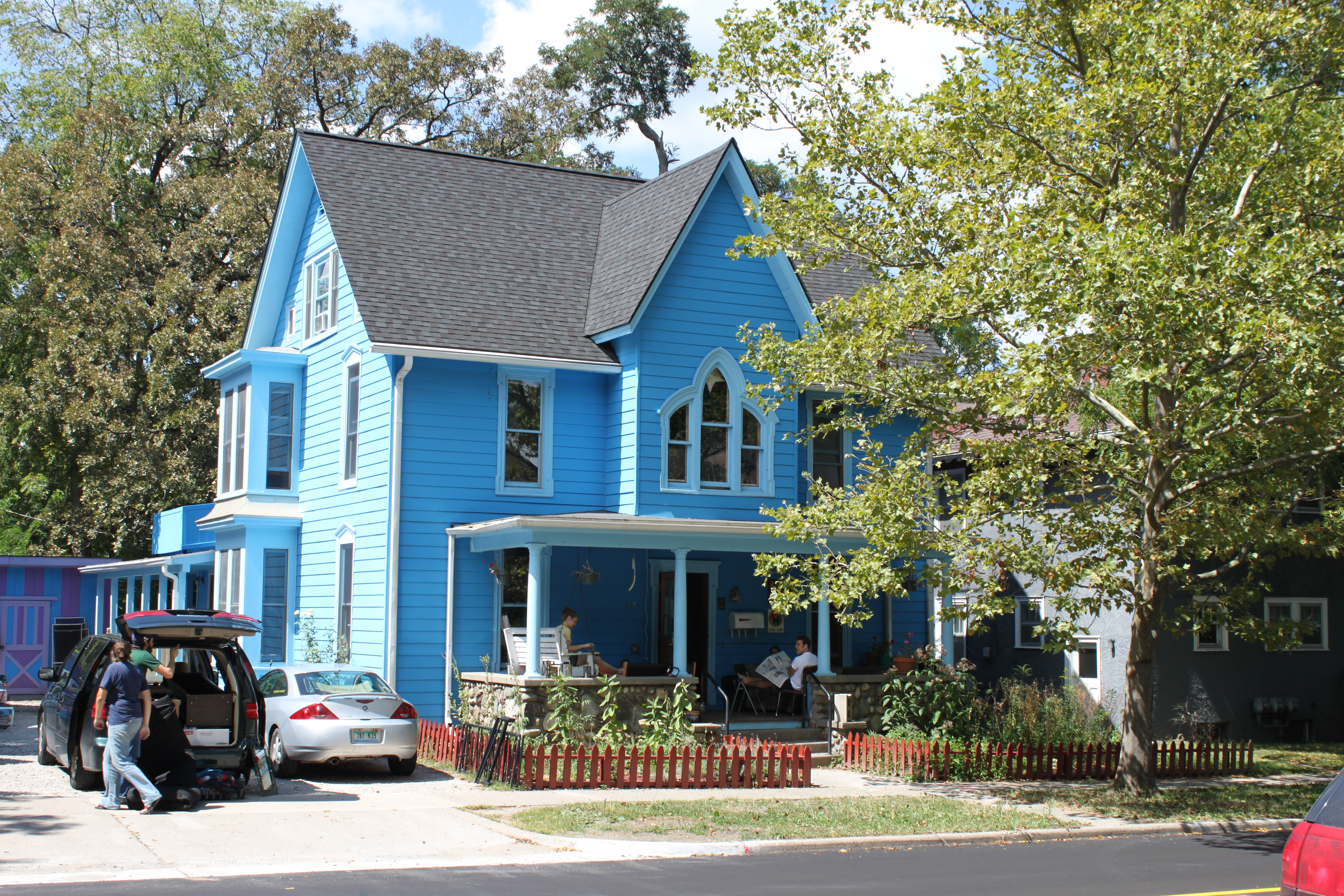 Michigan Cooperative House, University of Michigan, 315 North State Street, Ann Arbor Michigan